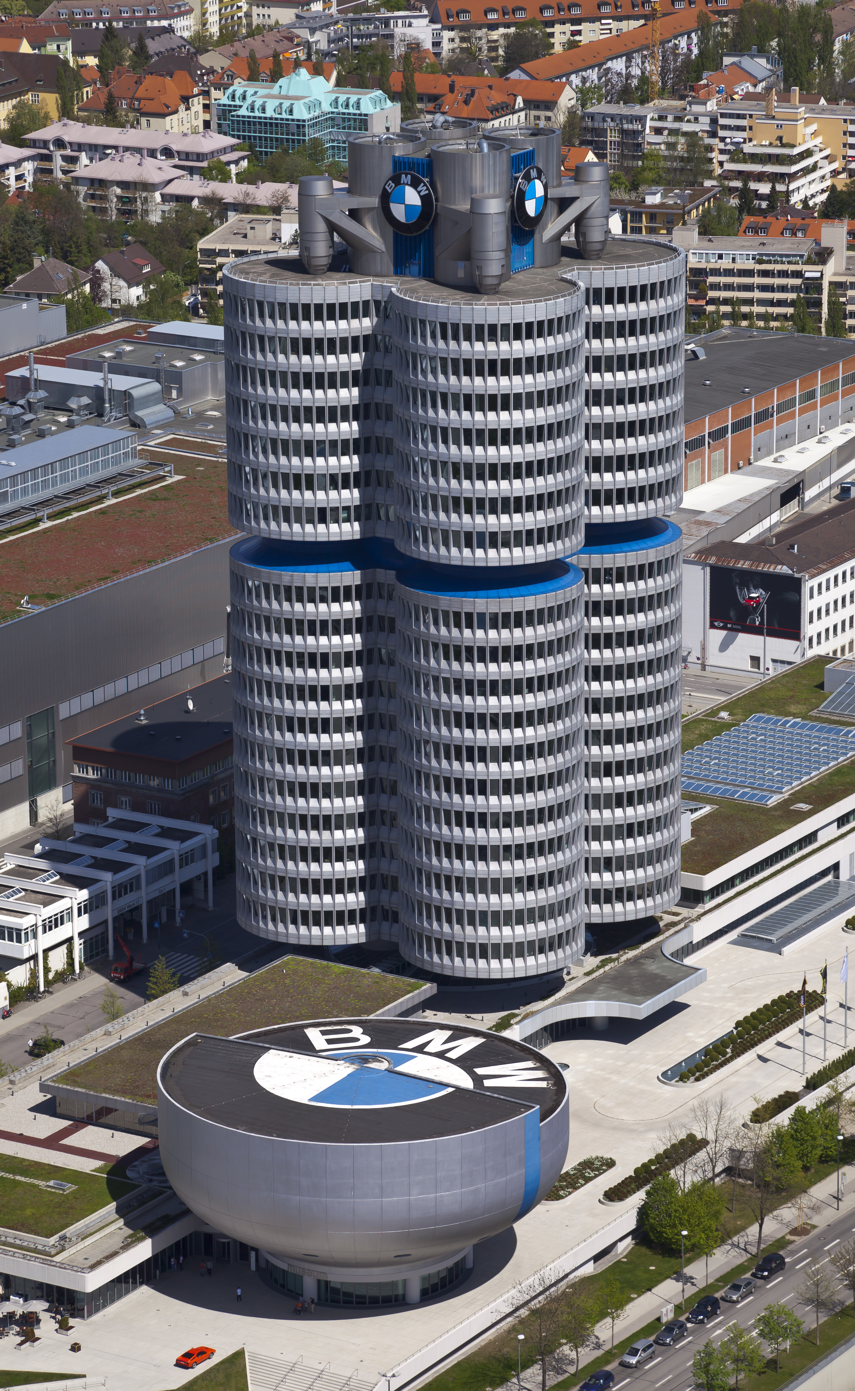 BMW Tower and museum, Munich, Germany